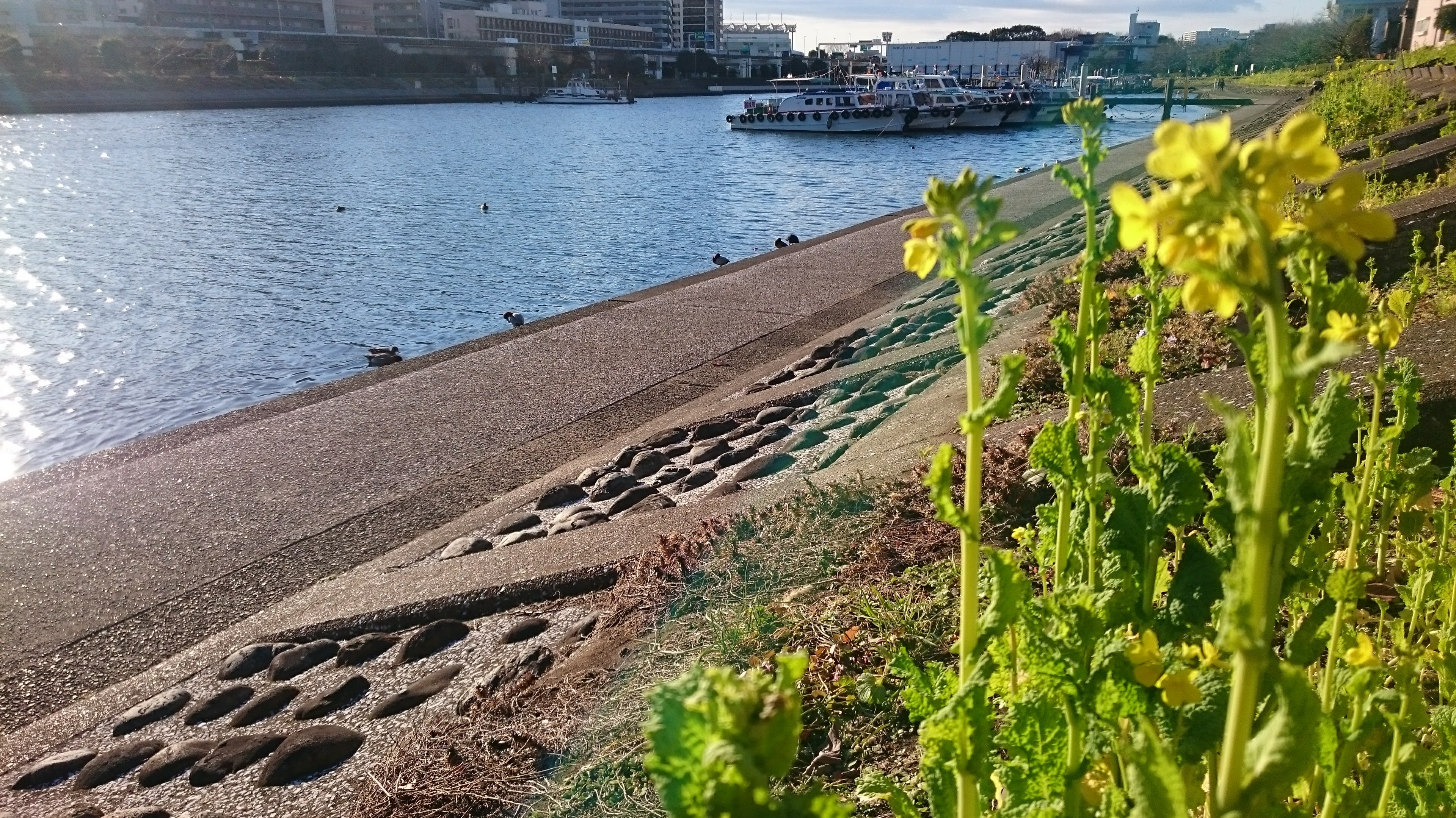 Katsushima Canal at Shinagawa, Tokyo, Japan.